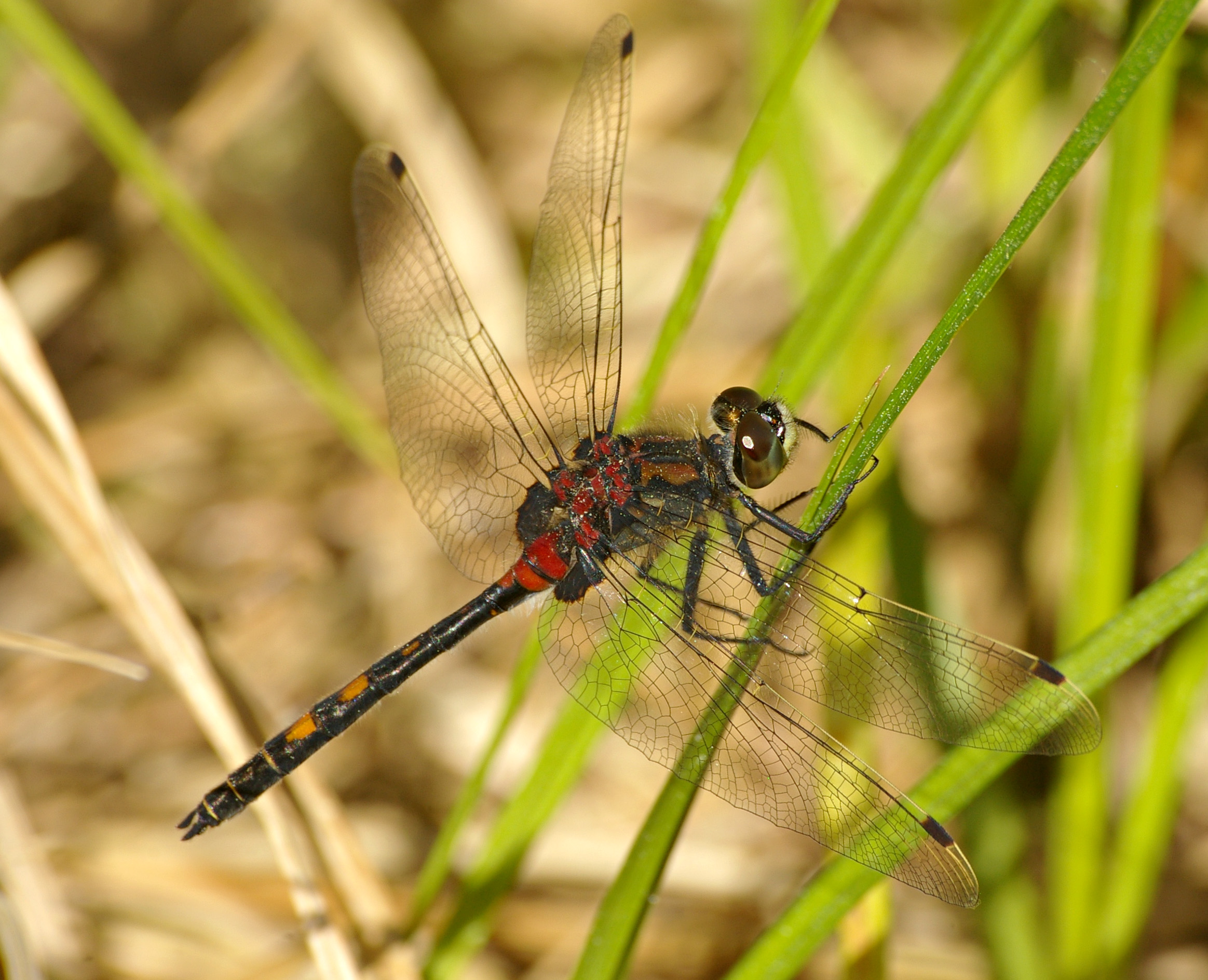 Male specimen of the dragonfly Leucorrhinia dubia.